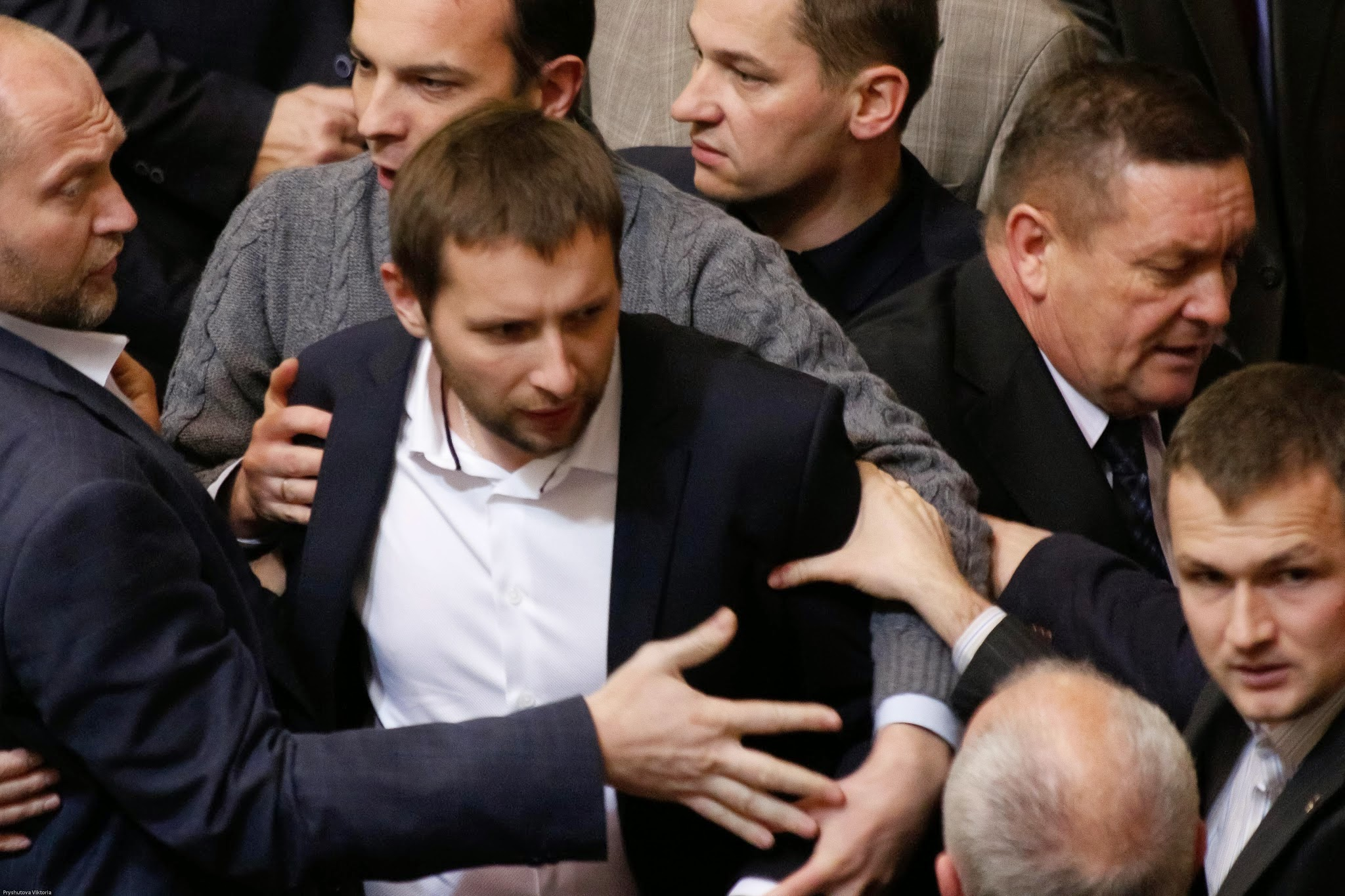 A fight broke out in the Ukrainian parliament on December 4, 2014 after the first vote for the parliamentary committees. The clash occurred after Speaker Vladimir Groisman has not announced a proposal to exclude from senior positions in the committees certain members, who on January 16, 2014 voted in favor of anti-Euromaidan laws. Among the participants of the fight were: Sergey Kaplan, Yuri Levchenko, Semen Semenchenko and Volodymyr Parasyuk. As noted by Yuri Levchenko, the fight started when someone tried to silence Parasyuk by saying: «You are not at the Maidan anymore».